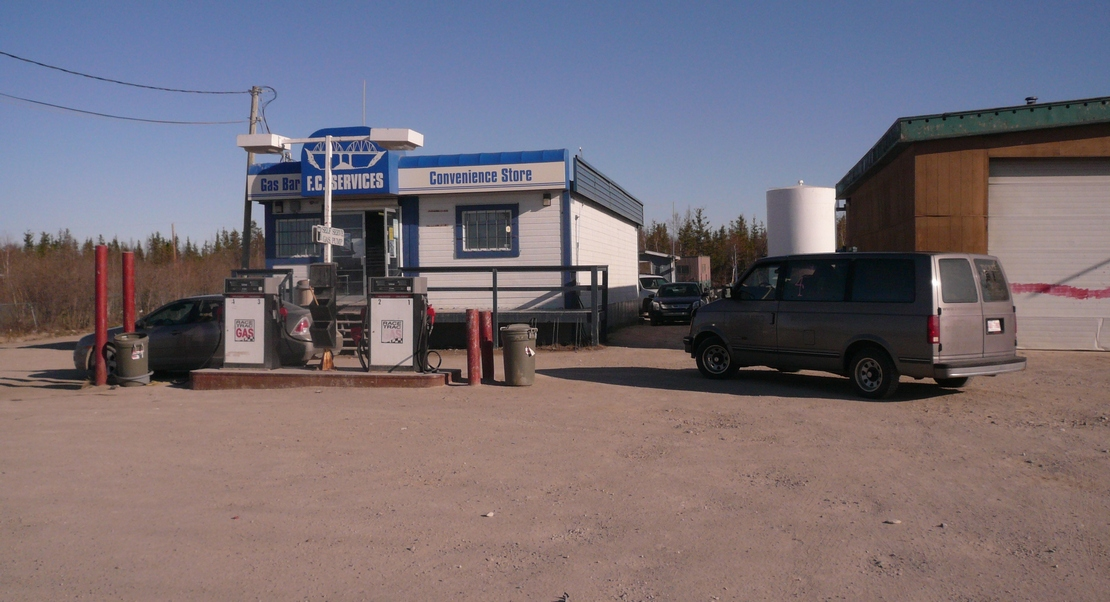 Rae Edzo, Convenient Store